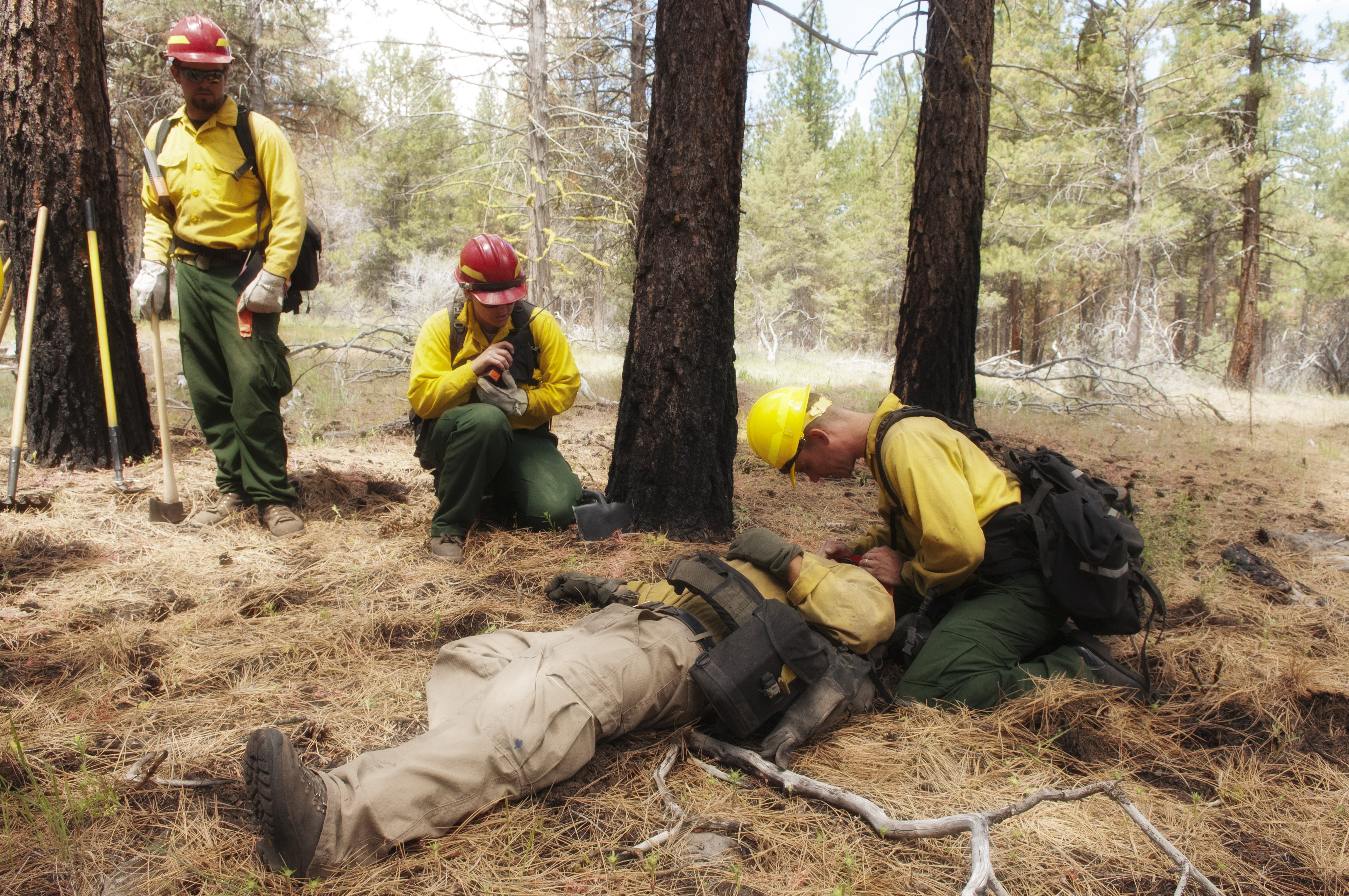 New Wildland Firefighters get a chance to put what they have learned during guard school to practice on there final day of training with a prescribed burn in which they had to control and extinguish.